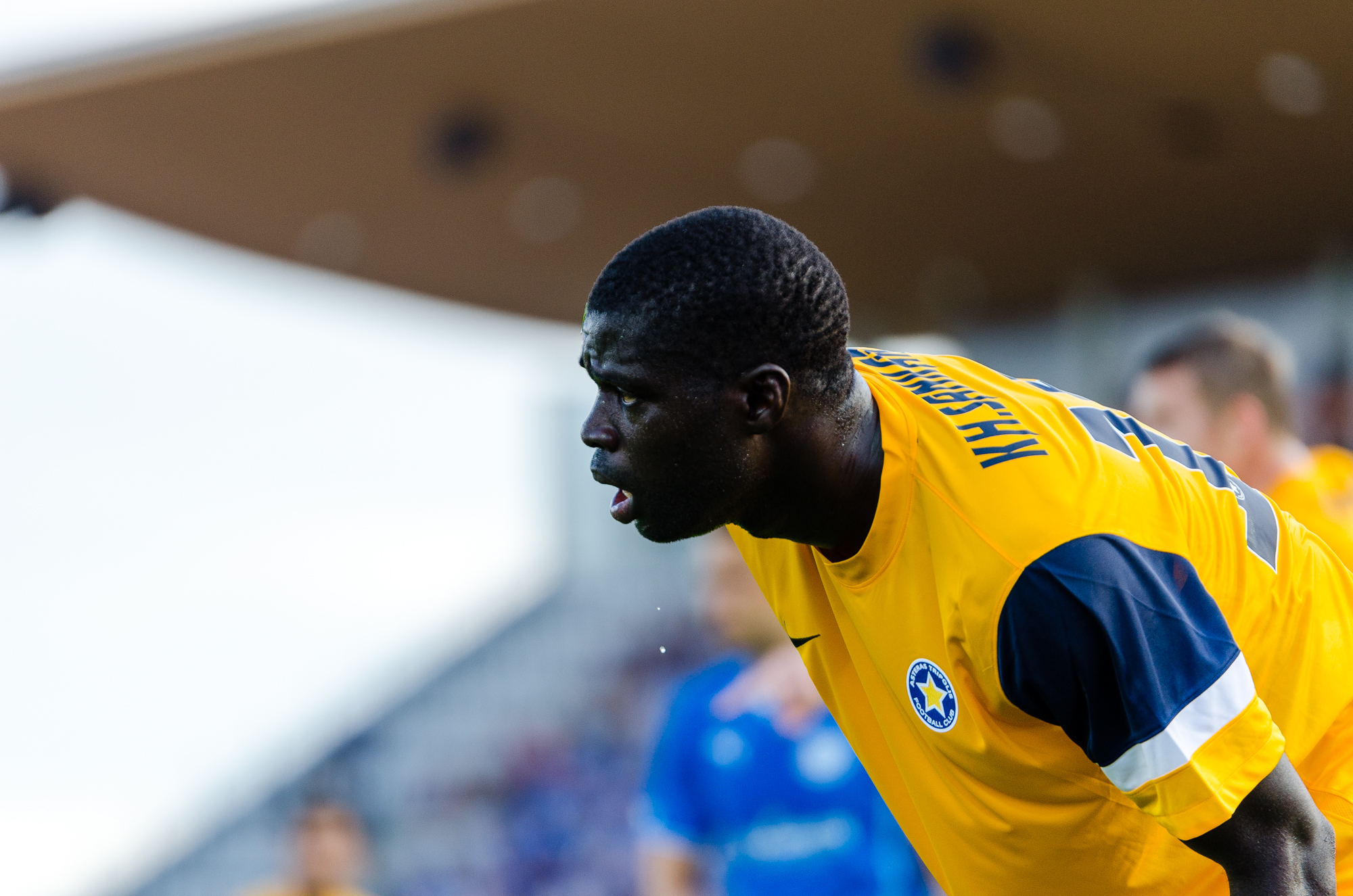 Khalifa Sankare in RoPS - Asteras Tripolis match on 17th of July 2014.